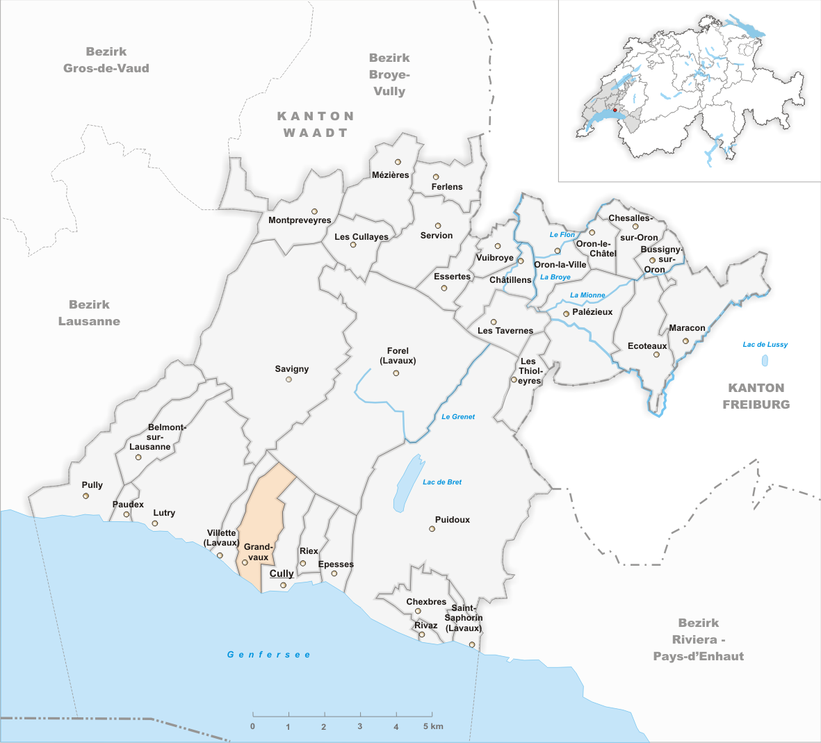 Municipality Grandvaux